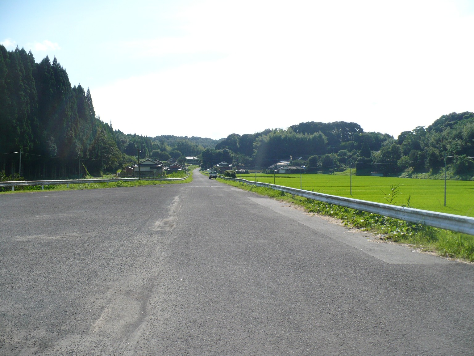 Ruin of JNR Miyanojo line. The photo was taken at the site of Satsuma-Gumyo station, looking toward Sendai side.